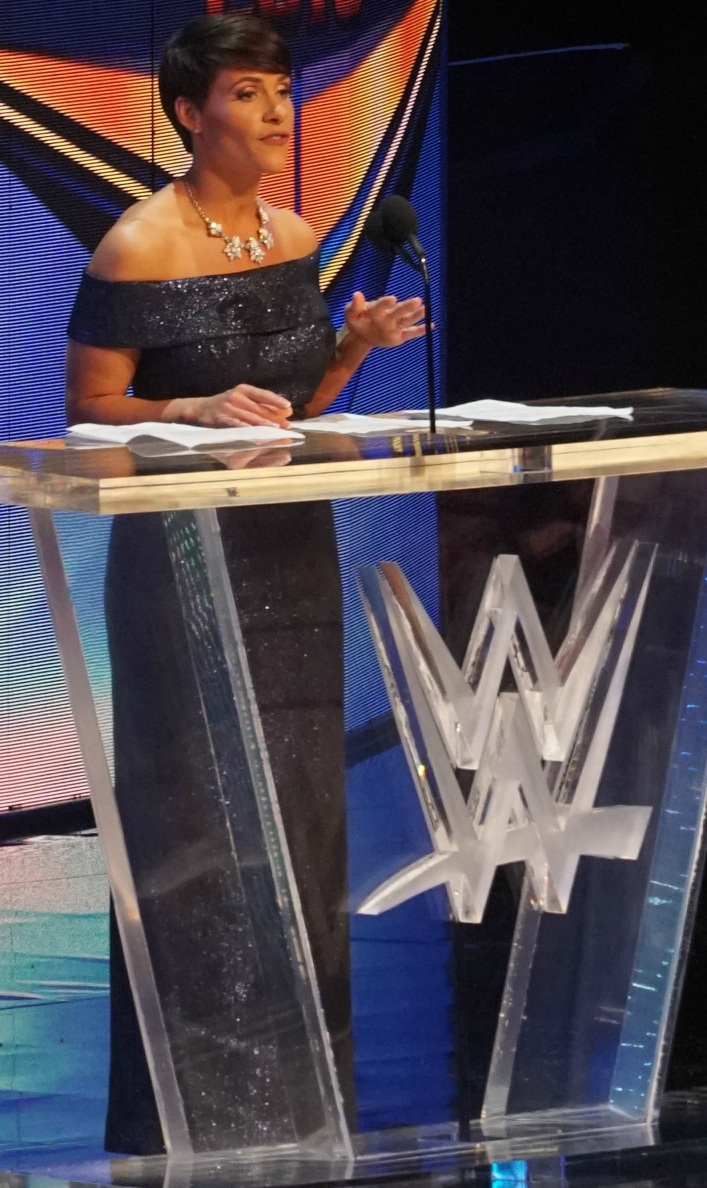 Molly Holly performing her introductory speech to present the Female Hall of Famer of that year, Ivory